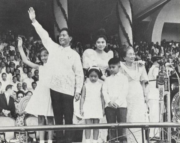 First inauguration of President Ferdinand Marcos held at the Quirino Grandstand, Manila, December 30, 1965.